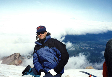 Image was provided by Karen James